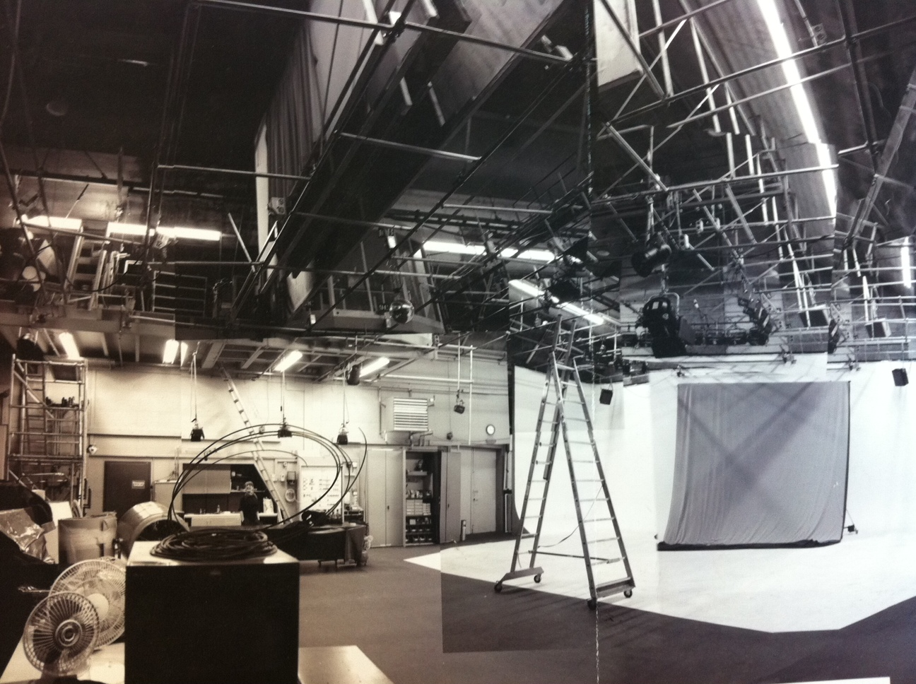 Studio Bellerive Condor Films